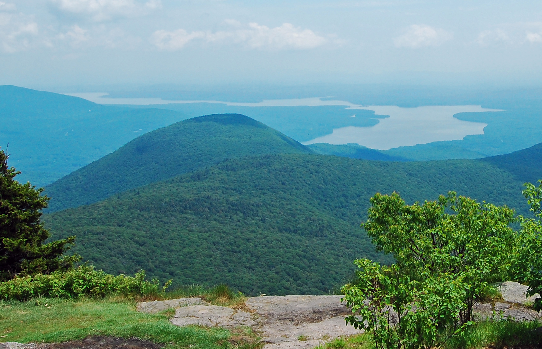 View looking east from Wittenberg Mountain in the Catskills east toward Ashokan Reservoir, Shandaken, NY, USA